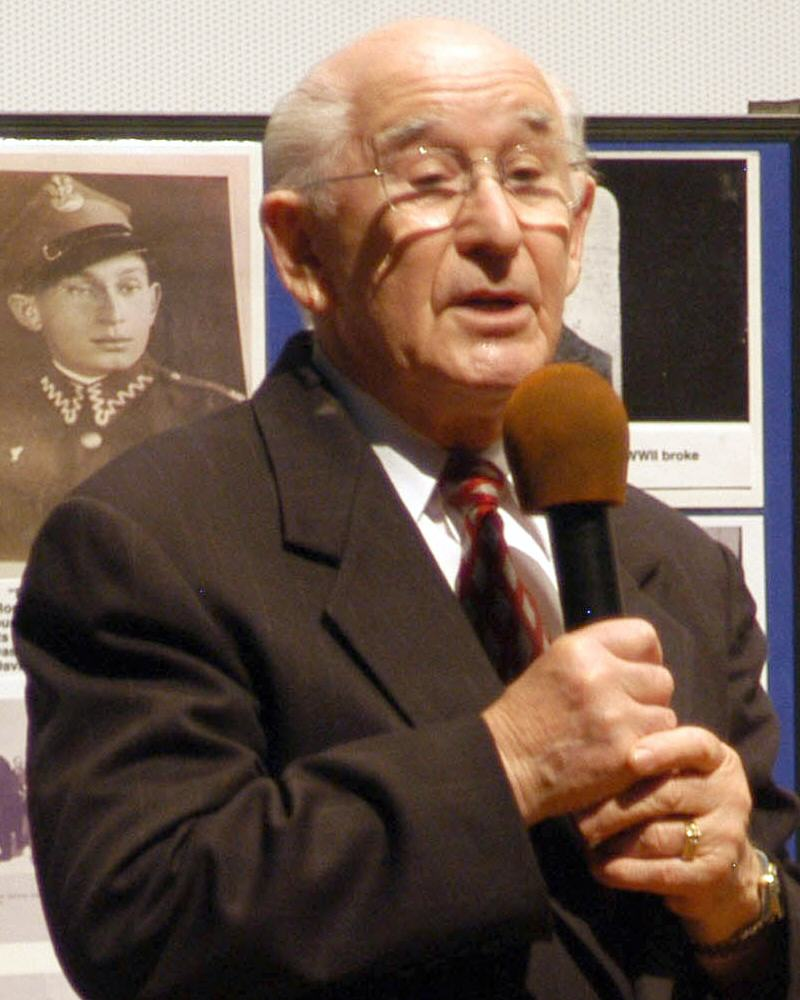 060503-N-6843I-012 Coronado, Calif. (May 3, 2006) - Holocaust survivor David Faber speaks to Sailors on board Naval Base Coronado, about his experiences while living at nine different concentration camps between 1939 to 1945. Faber was invited to be a guest speaker during Holocaust Survivor's Day and voiced his message of freedom and tolerance to the audience. U.S. Navy photo by Journalist 3rd Class S. C. Irwin (RELEASED)